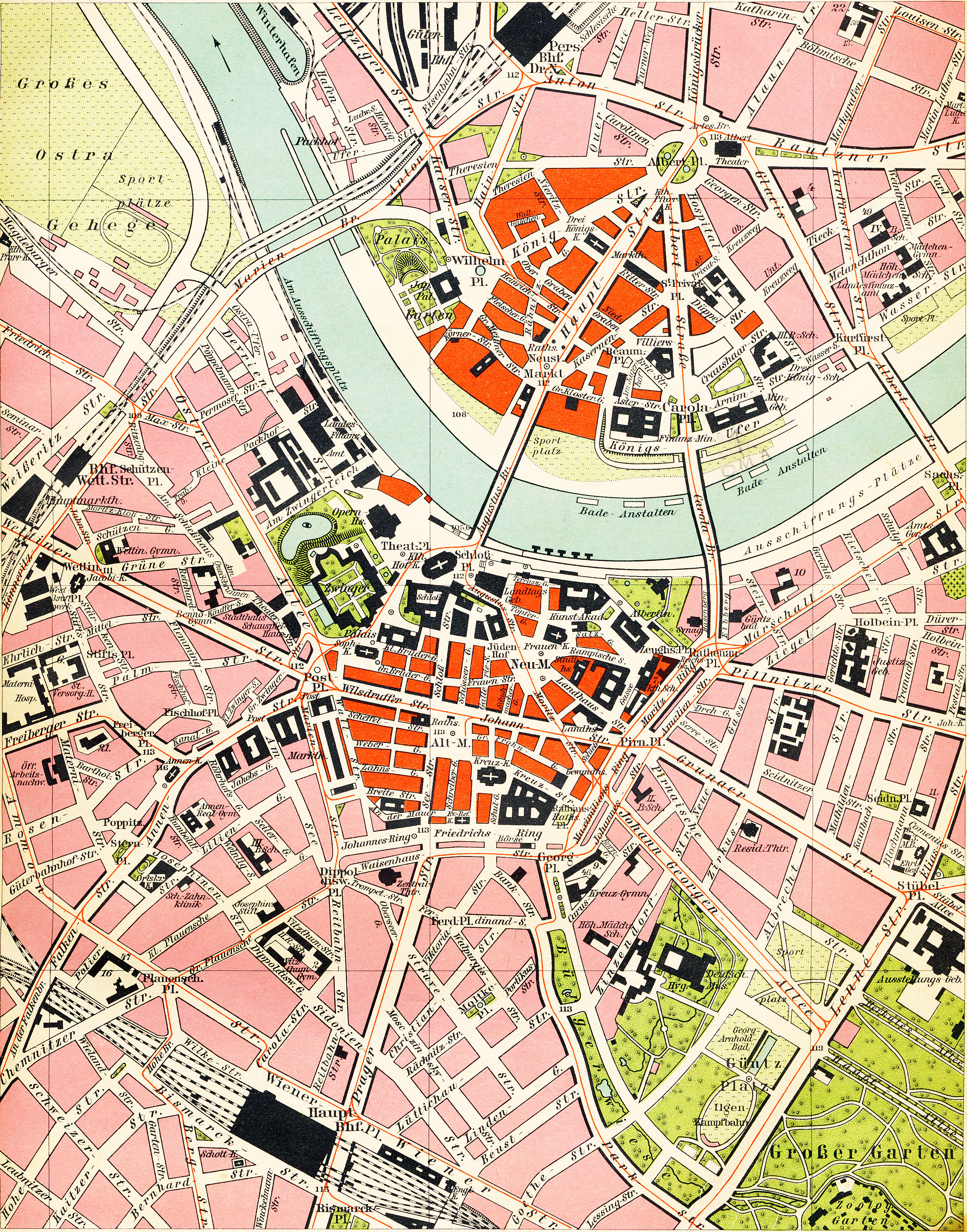 Dresden in present time (town center, around 1930)